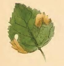 Stainton’s Natural History of the Tineina (1855–1873): Phylloporia bistrigella